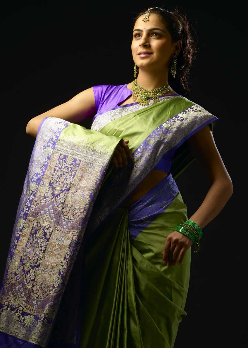 Actress Shradha Arya in an Indian Saree [Traditional dress]